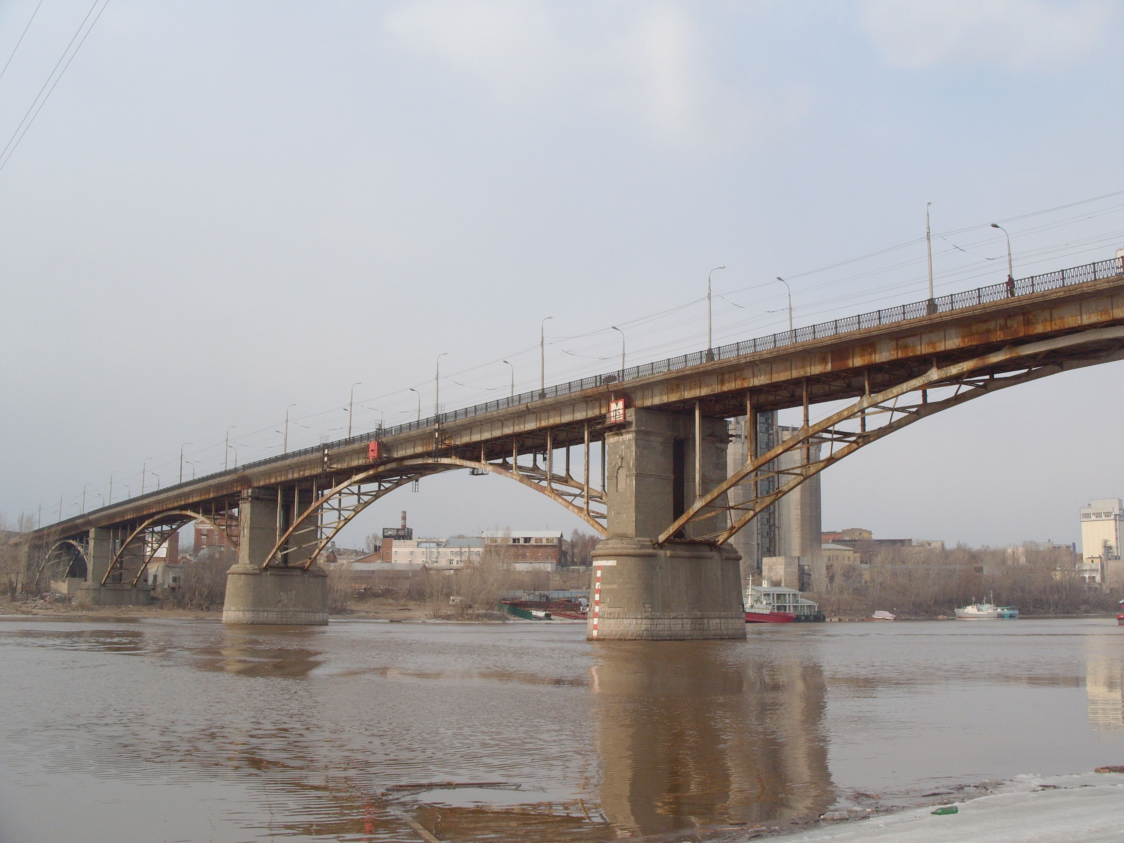 Old_bridge_ over Samara river